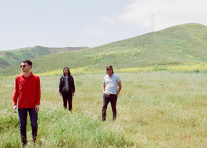 Windows in Santa Barbara County